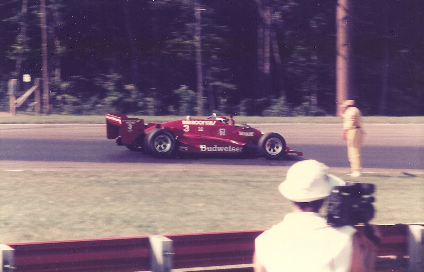 Bobby Rahal at the 1985 CART Mid-Ohio 200